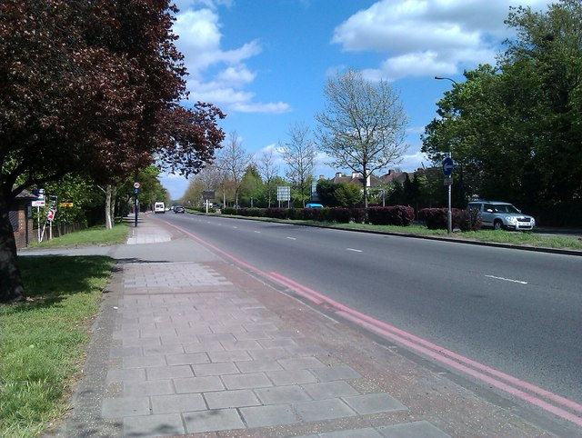 A205 South Circular Road, Westhorne Avenue